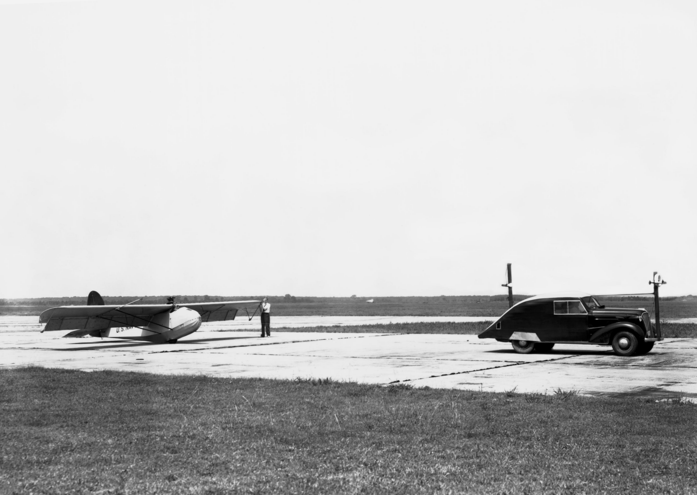 A Franklin PS-2 glider at NACA's Langley Aeronautical Laboratory at Hampton, Virginia (USA), in 1938. This Franklin PS-2 training glider is about to be towed aloft by the specially modified car in front. NACA researchers used the PS-2 in a study of ground effect on a towed glider. Langley flew two of the Franklin gliders in the late 1930s, but the U.S. Navy never really found a good use for training gliders.